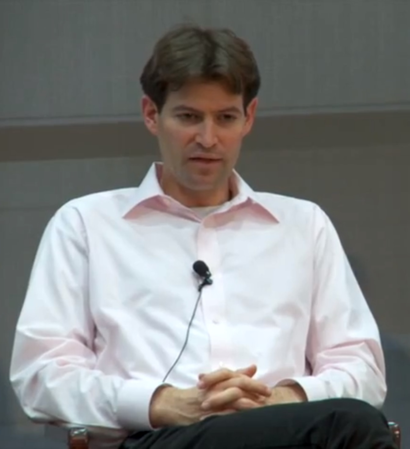 "Environment and climate change panel discussion" Mary Ruckelshaus, Noah Diffenbaugh, Annie Hazelhurst & Sara Menker Moderator: Jeff Koseff, co-director, Stanford Woods Institute for the Environment Stanford University EEAP Spring Conference - May 15 2014